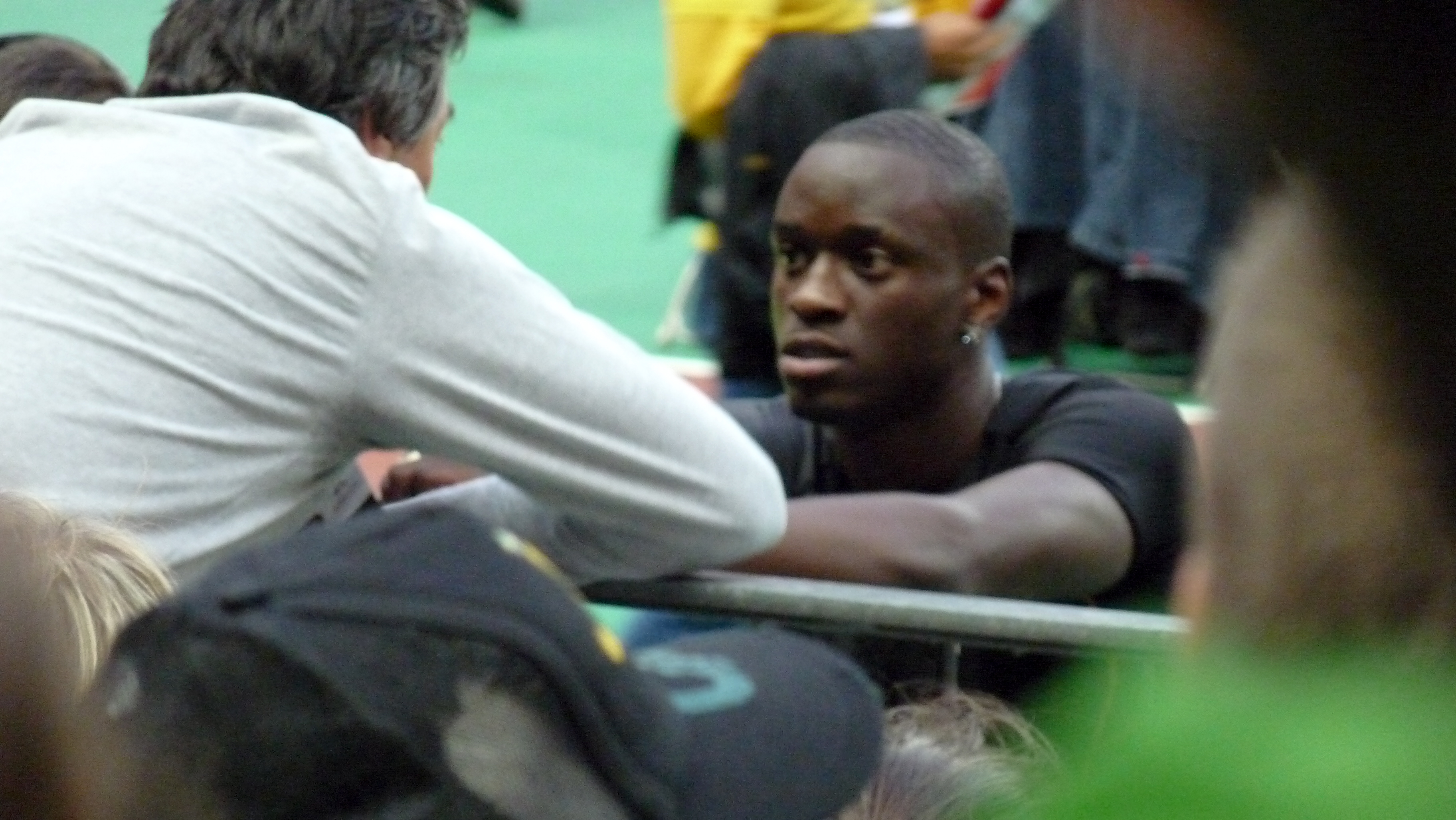 Teddy Tamgho lors du Meeting Areva 2009